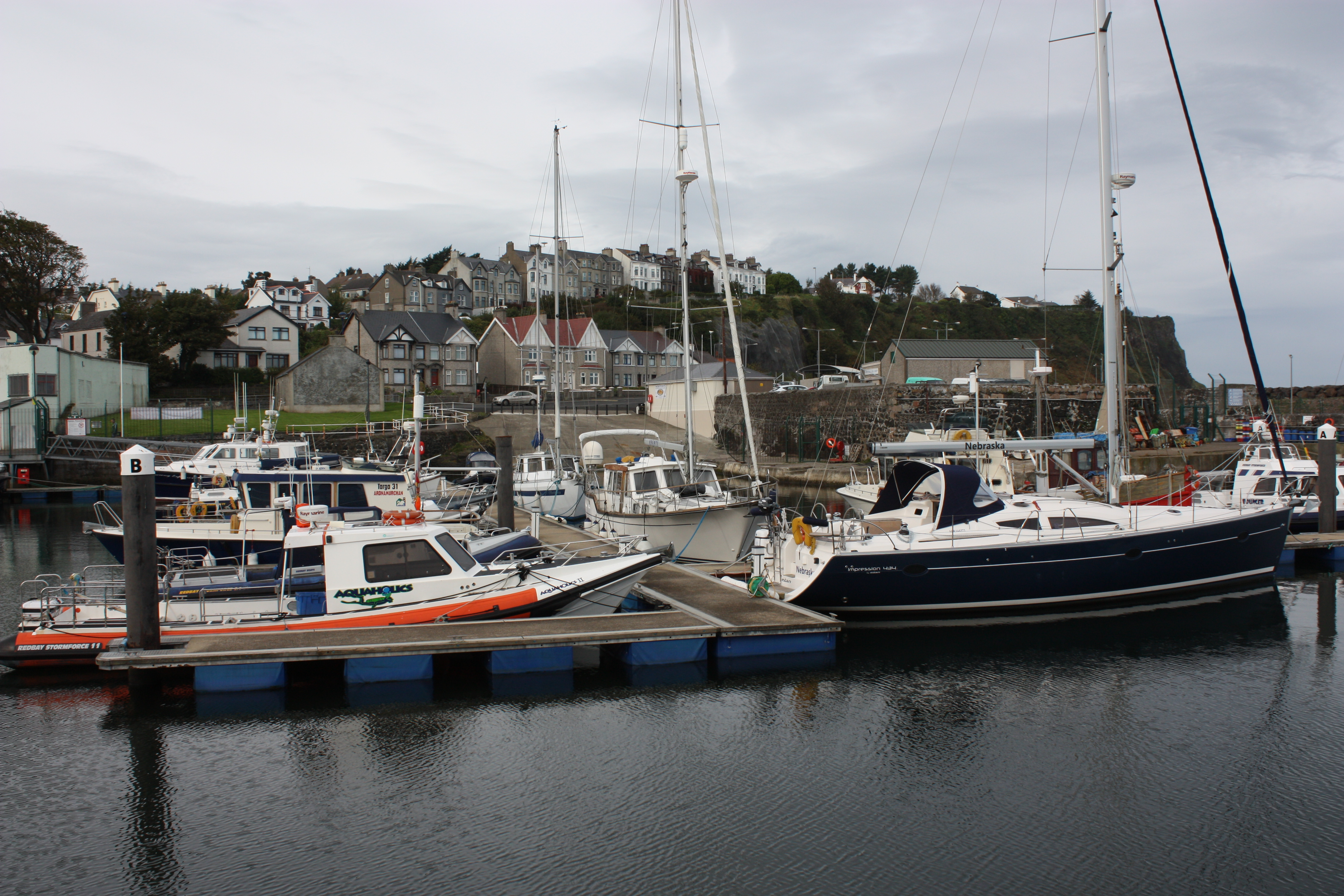 Ballycastle Harbour, Ballycastle, County Antrim, Northern Ireland, September 2010